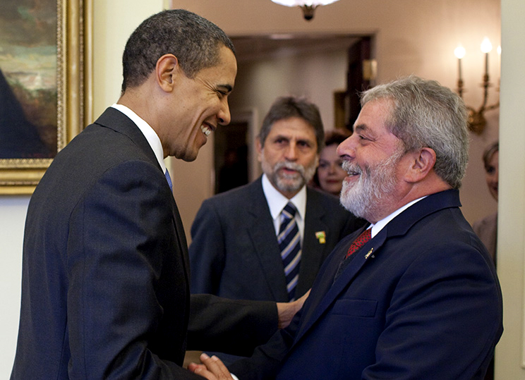 President Barack Obama greets President Lula da Silva of Brazil on Saturday, March 14, 2009 in the Oval Office.